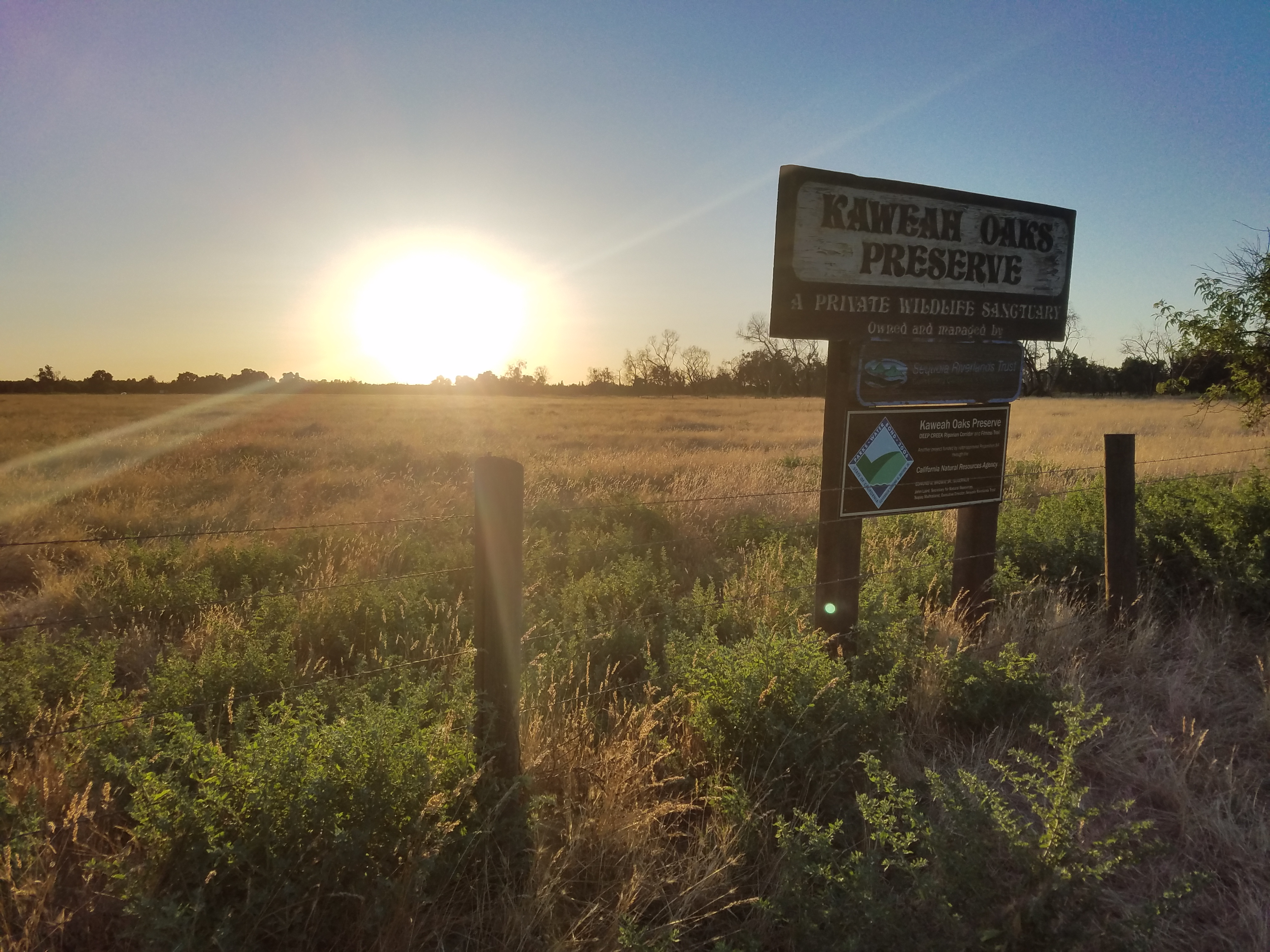 The sign for the Kaweah Oaks Preserve in Exeter.